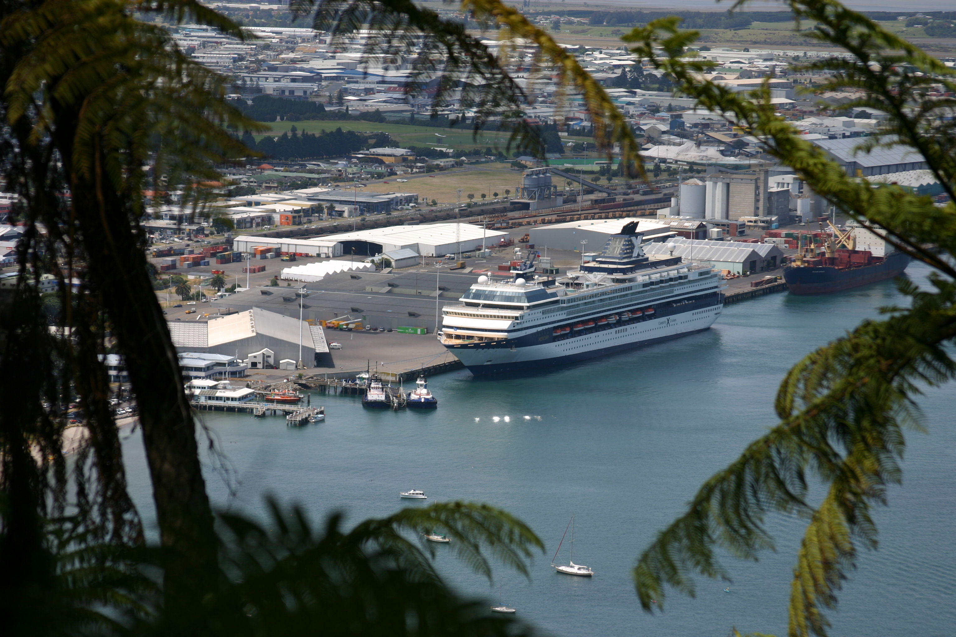 Celebrity Cruises line (new logo on port side) cruise ship (gold name sign Mercury) in Port of Tauranga.